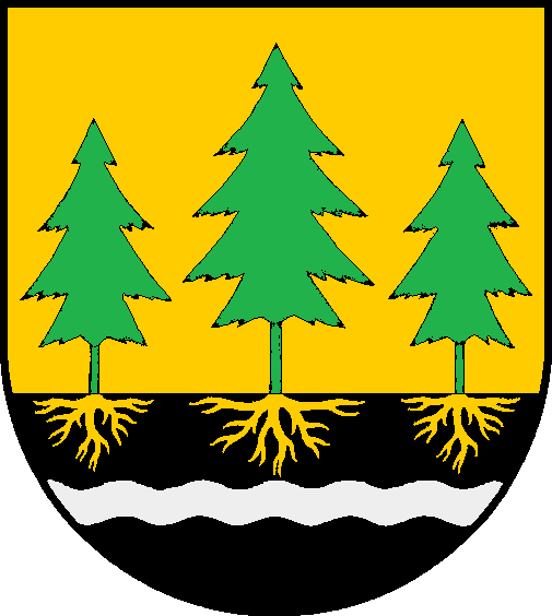 Coat of arms of Halstenbek Blasonierung: In Gold auf schwarzem Schildfuß, darin ein silberner Wellenbalken, drei grüne Tannen, die mittlere etwas höher als die beiden anderen, mit goldenen, in den Schildfuß hinabreichenden Wurzeln.